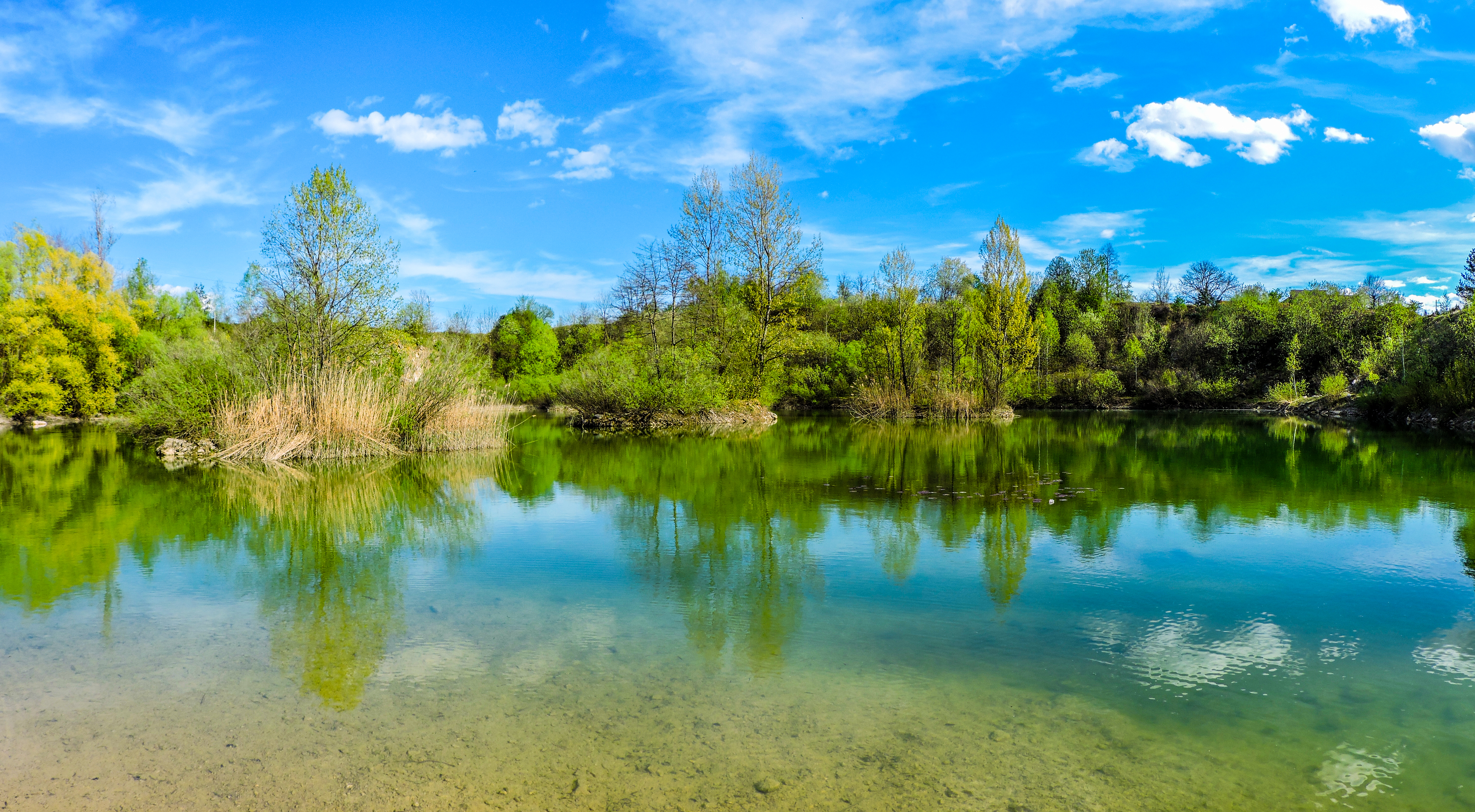 This location (lake?) is known as Quarry Nerajec (Kamnolom Nerajec). It is located on the Črnomelj-Vinica road, near the village of Veliki Nerajec at Entrance 2 to the Regional Park Lahinja (Vhod 2 Krajinski Park Lahinja; GPS 45.512088 N, 15.187000 E). The water is Lahinja river that seeps through the soil and rock to form this lake. There are three "islands" on this lake. There are various fish in the lake also. The lake was not always here but is a result of digging for a nearby quarry (hence the name of this place Quarry Nerajec). The location is accessible by car with parking located near the main road.